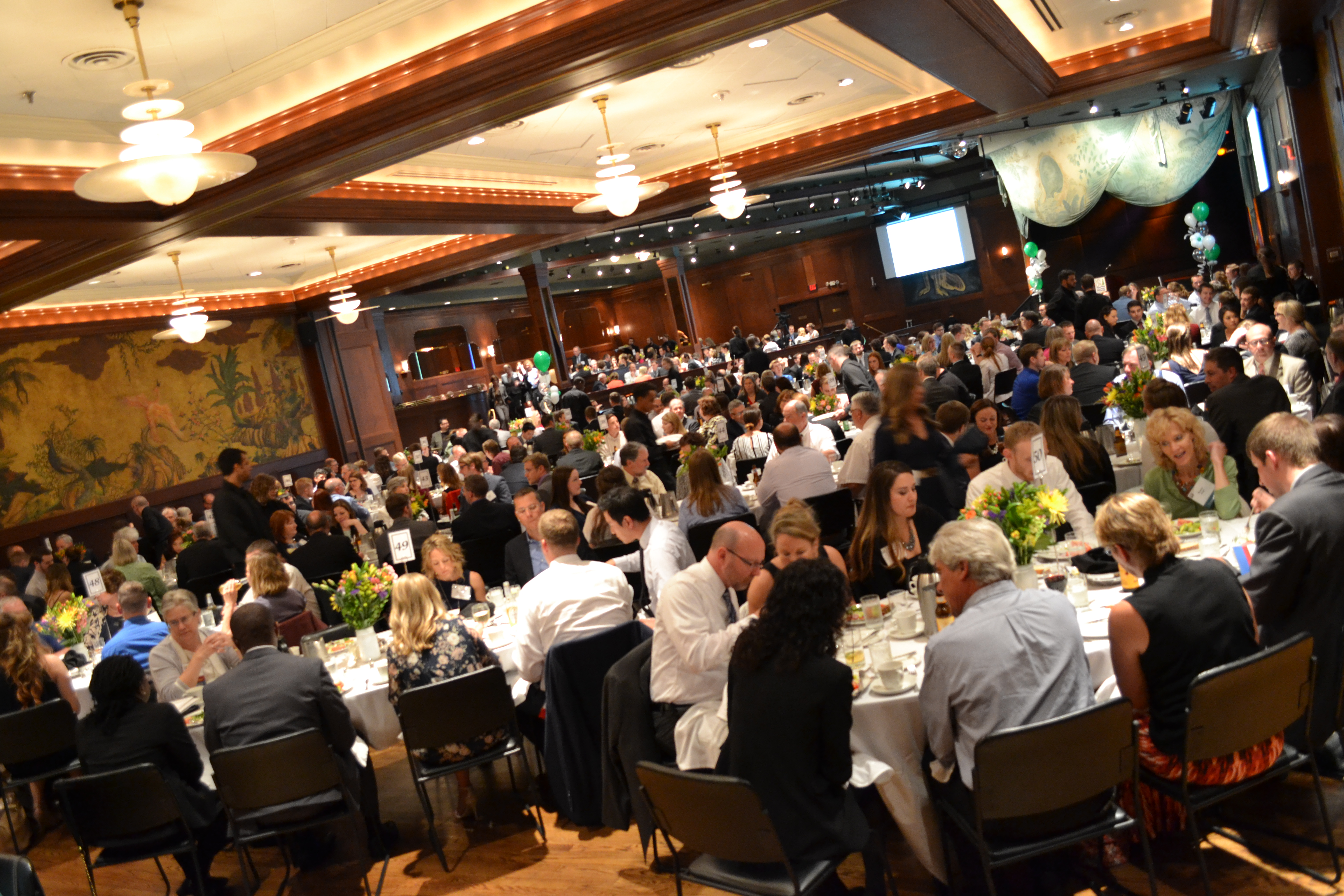 New CPAs gather to celebrate at the MNCPA's Recognition Dinner.